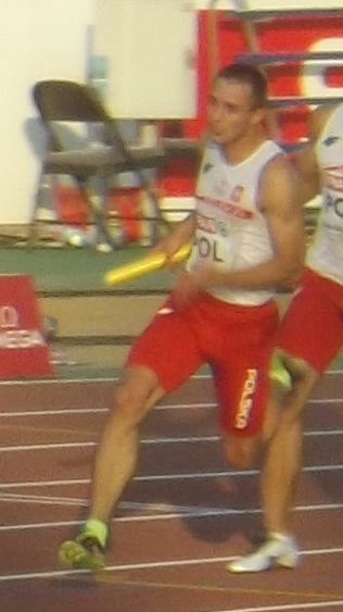 Artur Zaczek during 2015 European Team Champioships